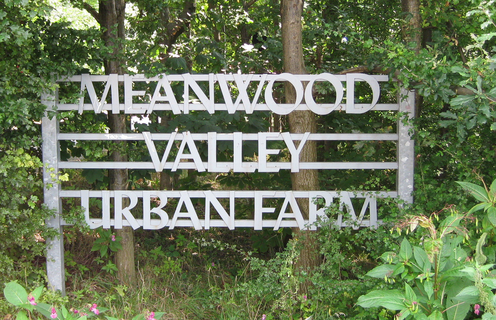 Sign at entrance of Meanwood Valley Urban Farm, Sugarwell Road, Leeds LS7 2QG